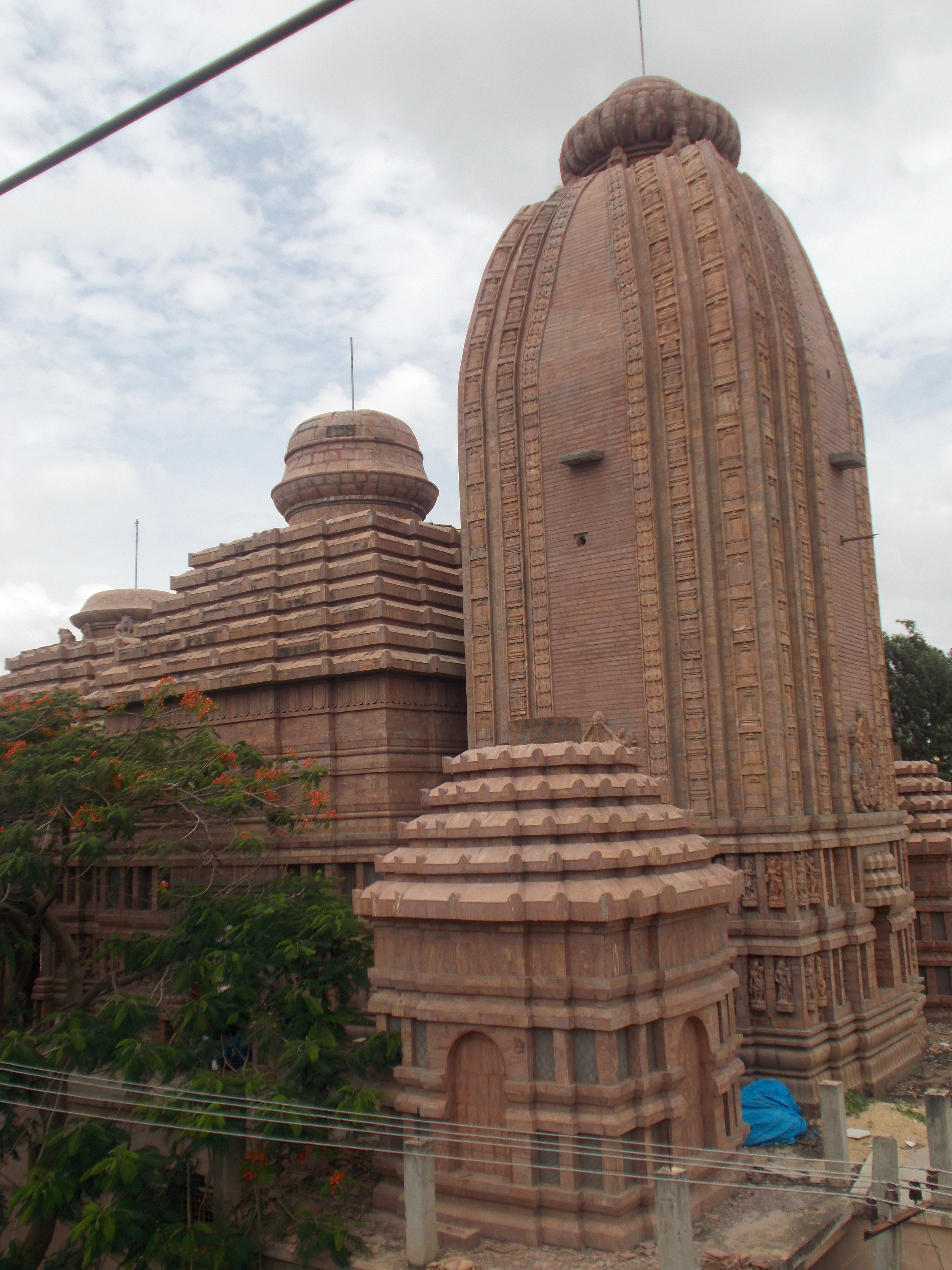 Puri Jagannath Temple at Agara, Bangalore